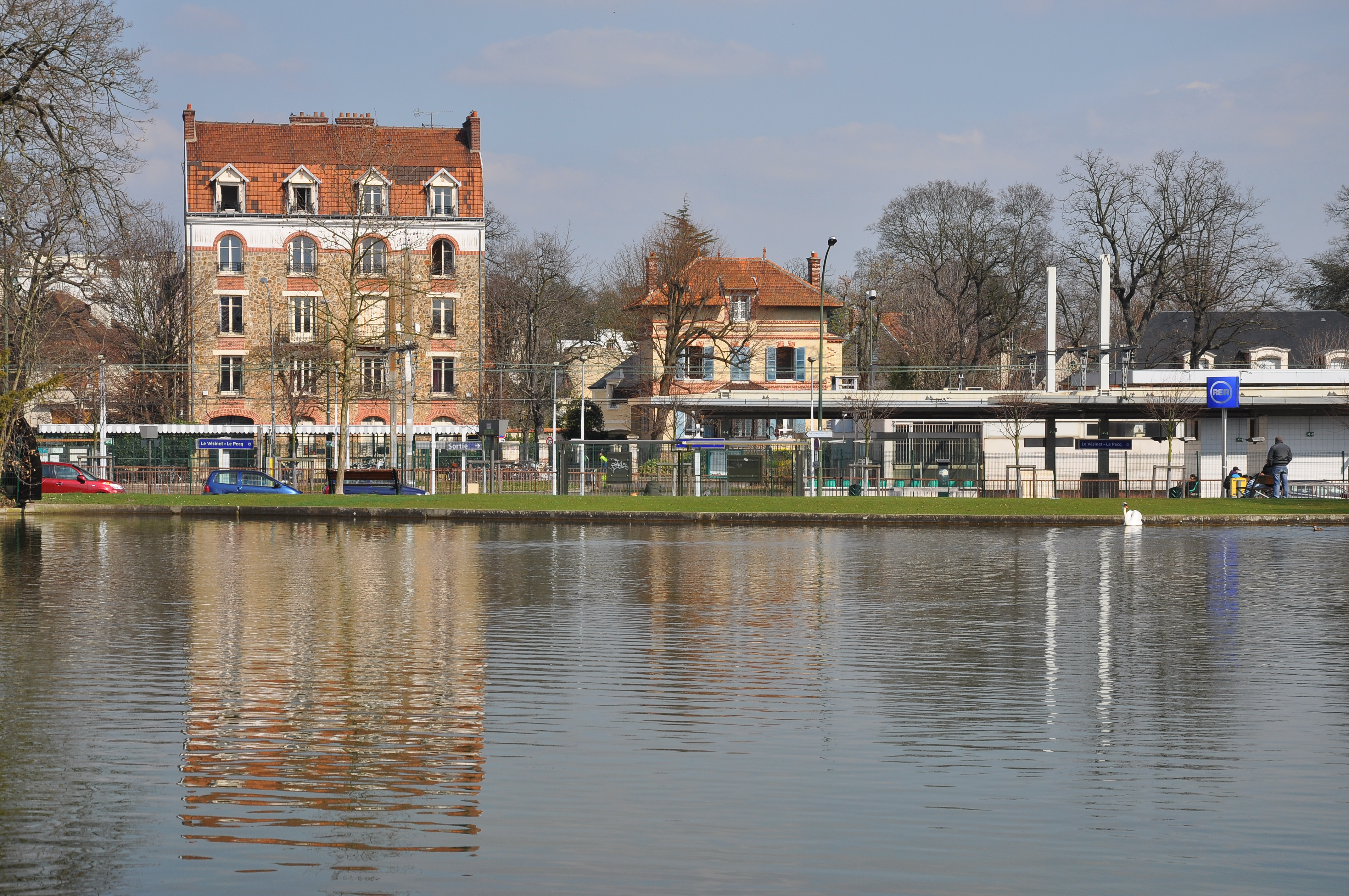 The pond Lac de la Station in Le Vésinet, Yvelines department, France. In the background the RER railway station of Vésinet-Le Pecq.